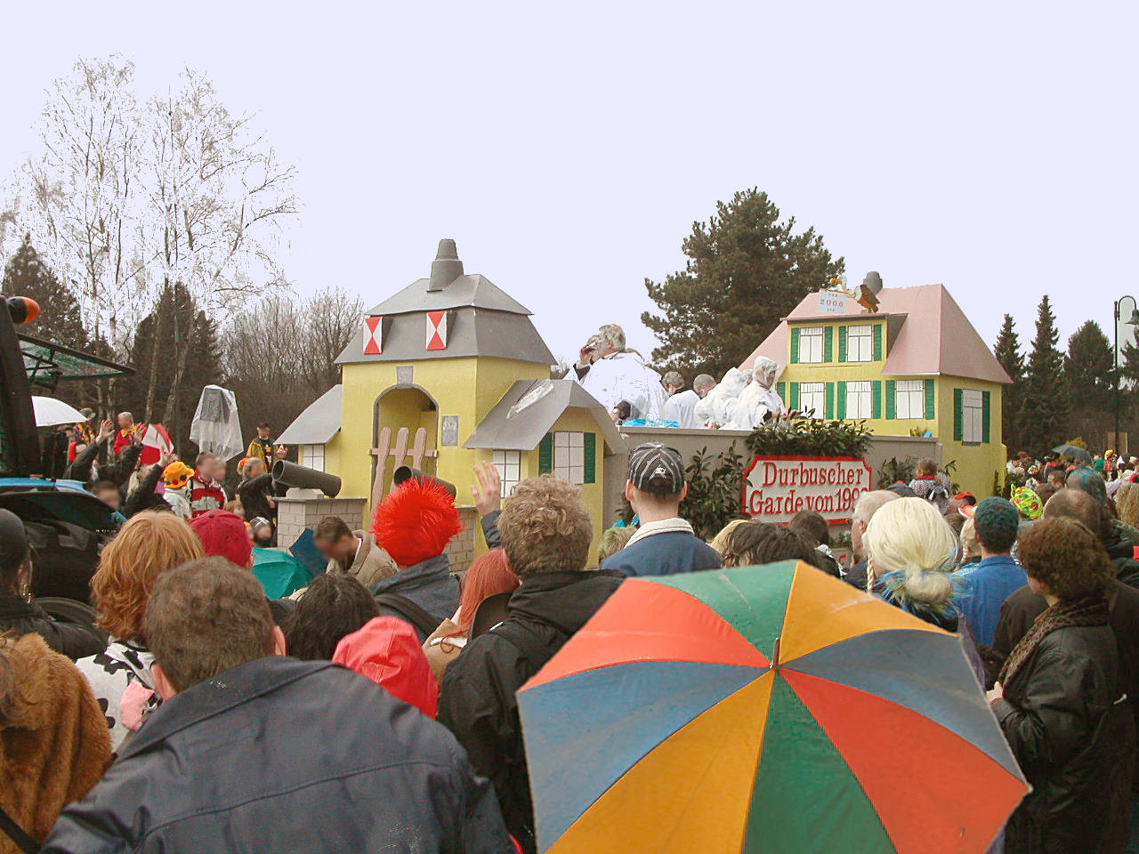 Model of Eulenbroich castle with its gateway in a parade on Carnival